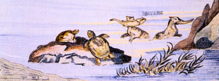 Detail of Nile mosaic from Palestrina (section 4). Copy of Cassiano dal Pozzo (around 1630). The Royal Collection 1994, Windsor castle.